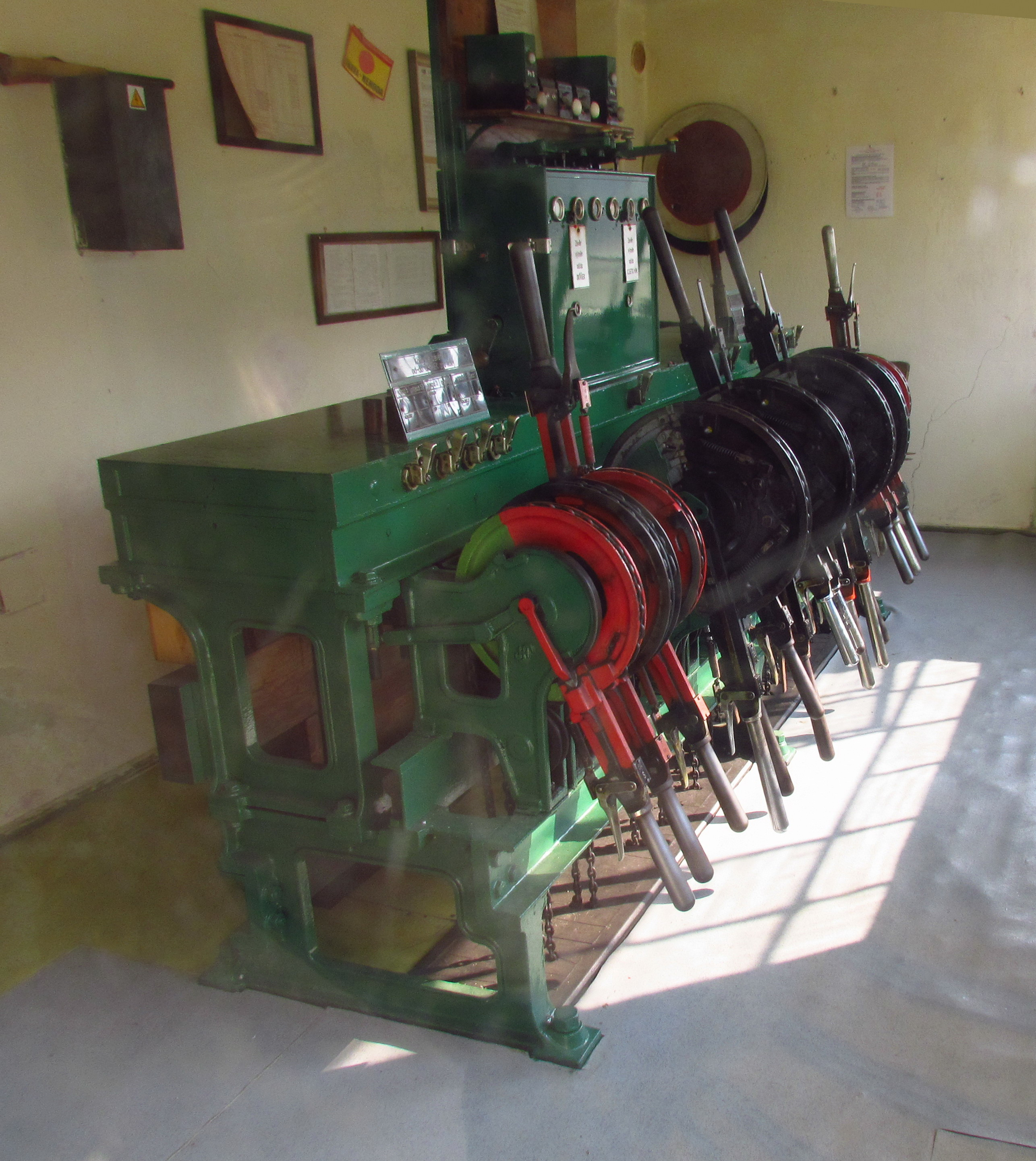 Lever frame and interlocking machnine of station interlocking at Stařeč train station, Railway line 241, Třebíč District.